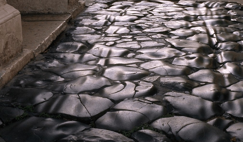 A piece of the surface of the Via Postumia reconstructed under the Gavi Arch in Verona.